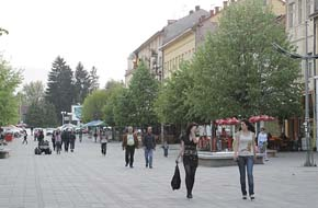 Main street in Berane